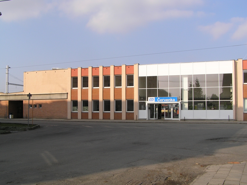 Červenka, Olomouc District, Czech Republic. Train station.